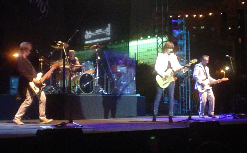 The Pretenders perform in Dubai, United Arab Emirates